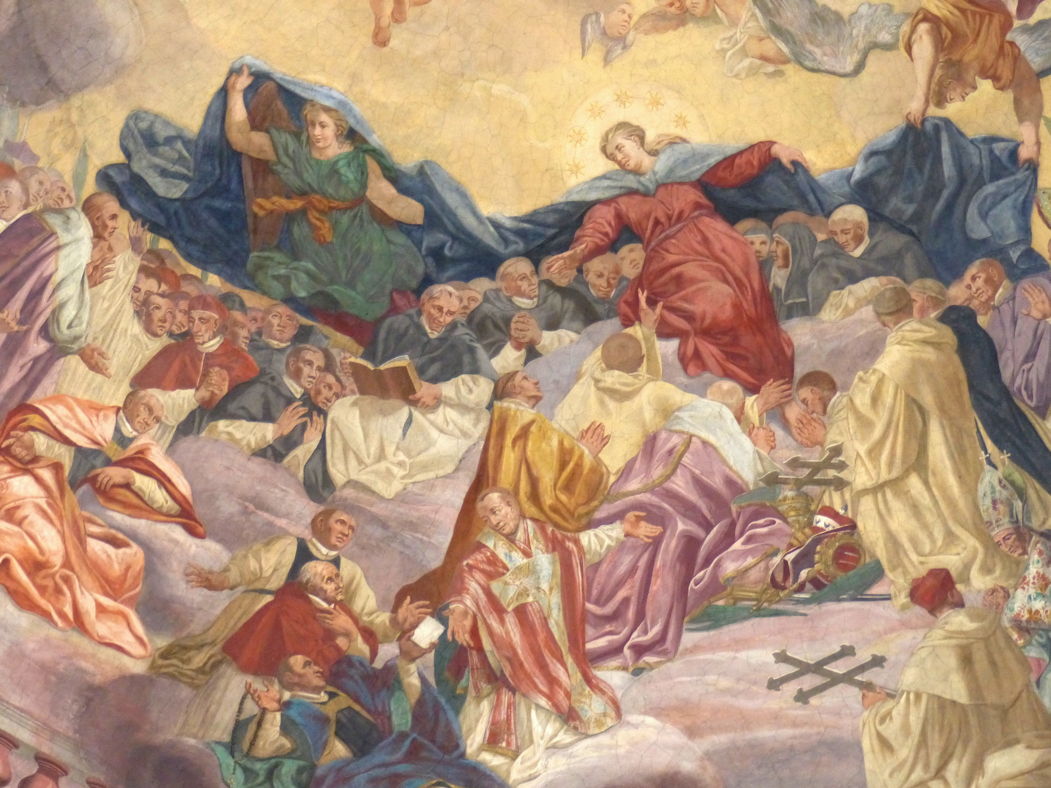 Waldsassen ( Upper Palatinate ). Abbey church: Dome fresco ( 1695-98 ) by Johann Jakob Steinfels - Our Lady of Mercy.( detail )This is a photograph of an architectural monument.